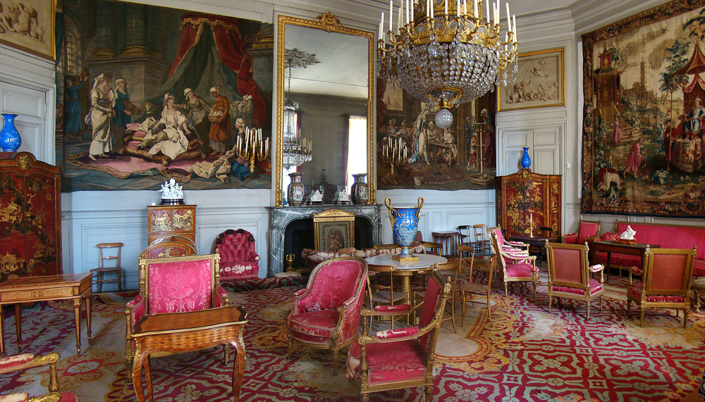 Château de Compiègne, Oise, Picardie, France. Music lounge.